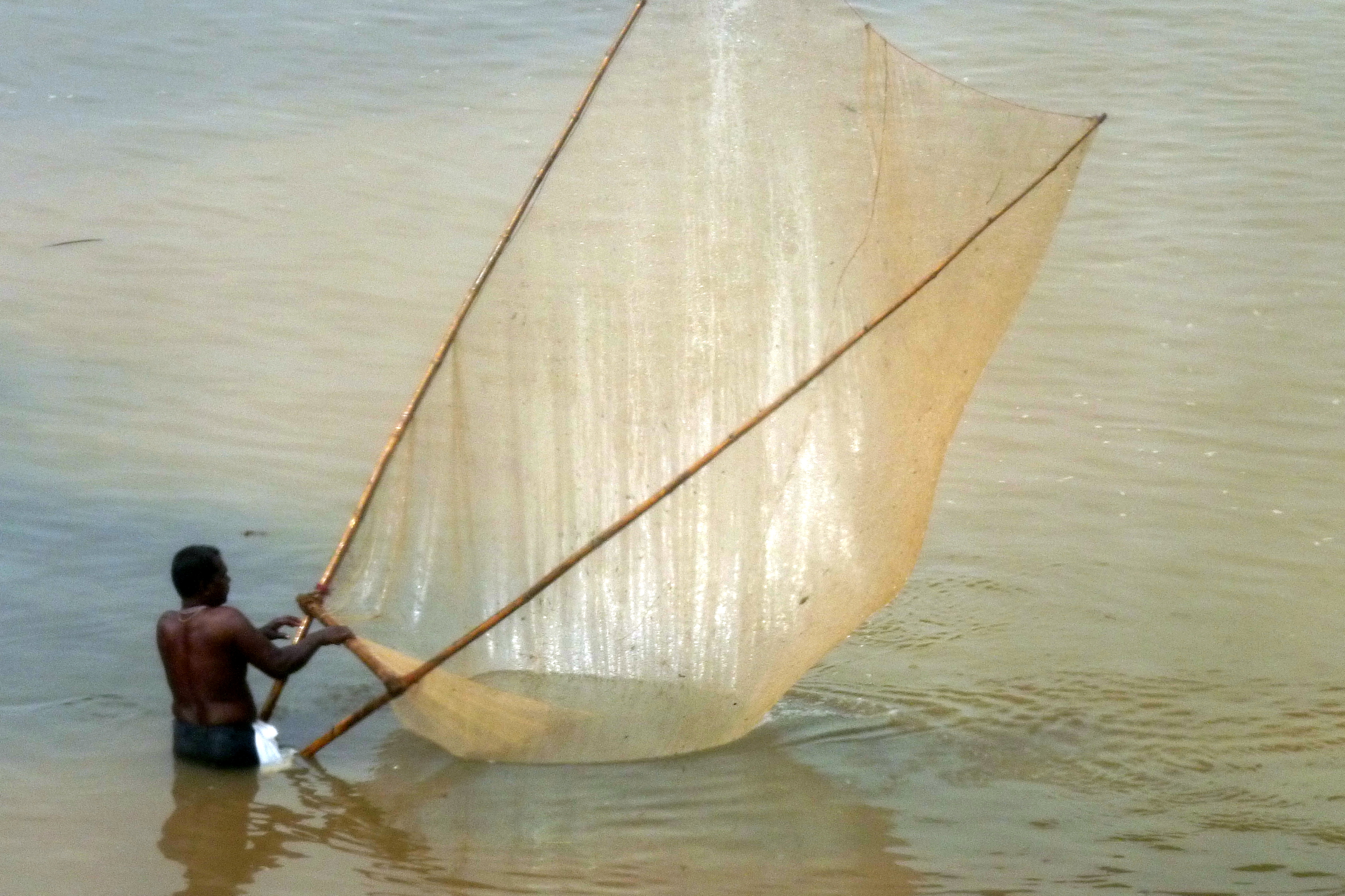 Fisherman and net, Bhubaneswar